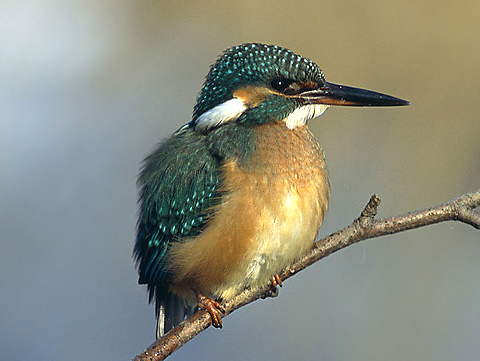 Alcedo atthis